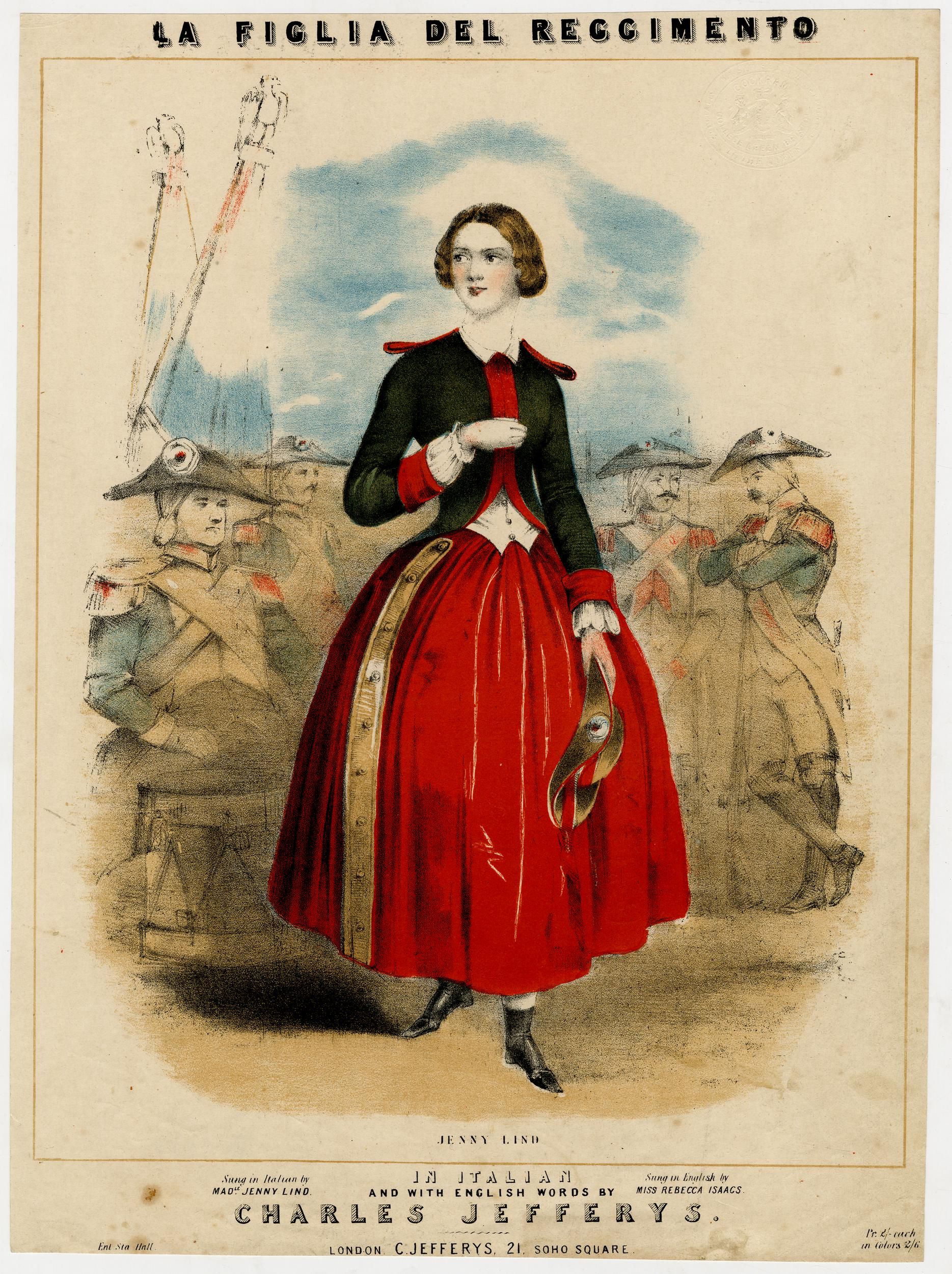 Portrait of Johanna Maria Lind-Goldschmidt (called Jenny Lind), full-length, slightly turned to the left, her hat in one hand, dressed as Marie in La Fille du Regiment in a military styled dress with epaulettes on her shoulders, soldiers behind, illustration to a song sheet Coloured lithograph